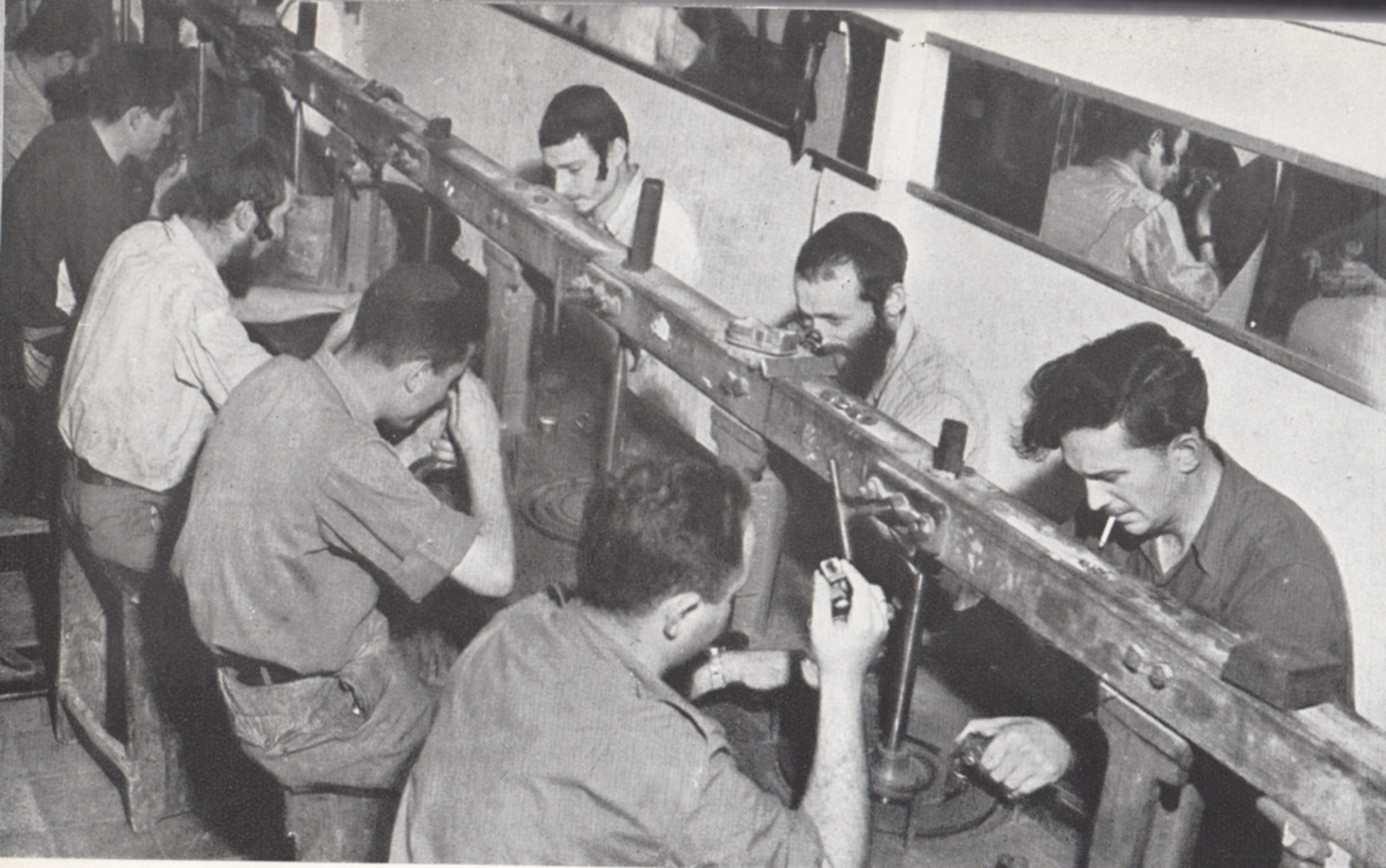 Industrial workers in Jerusalem, Industry in Israel